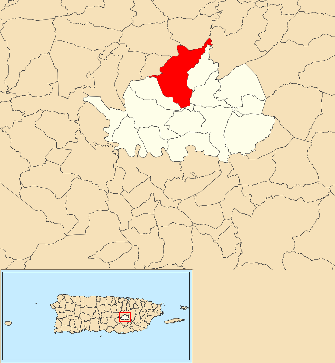 Ceiba, Cidra, Puerto Rico locator map